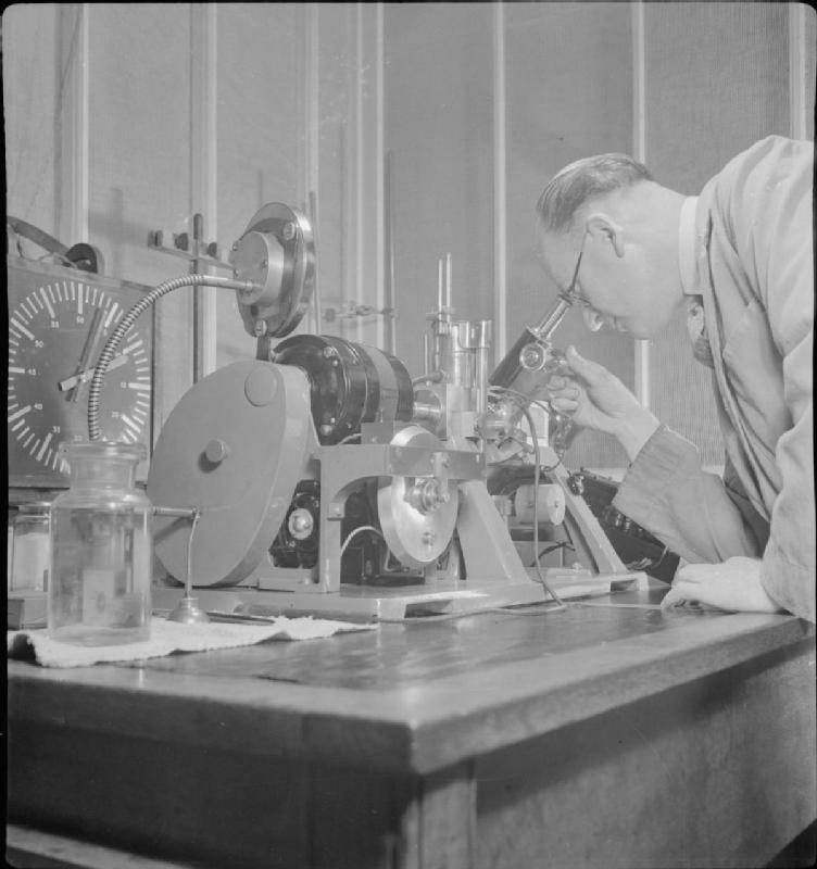 Britain Builds Light Cars- the British Automobile Industry, UK, 1945 A scientist in the research department of a car factory somewhere in Britain operates apparatus known as a 'wear and lubricant testing machine'. According to the original caption: "There are only three more like it in the world. It is used for investigating the merits of lubricants and for ascertaining the wear resisting properties of materials used in the construction of motor cars. The results can be graphically recorded to form valuable data for technical design".